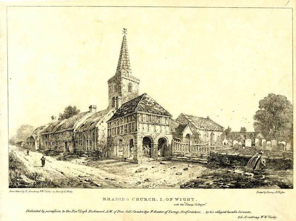 Plate 1: view of Brading Church, with the graveyard on the right behind fence and wall, the church spire in the centre, behind Tudor arcade of village market, row of houses to the left along path; after Armstrong and Varley. Lithograph